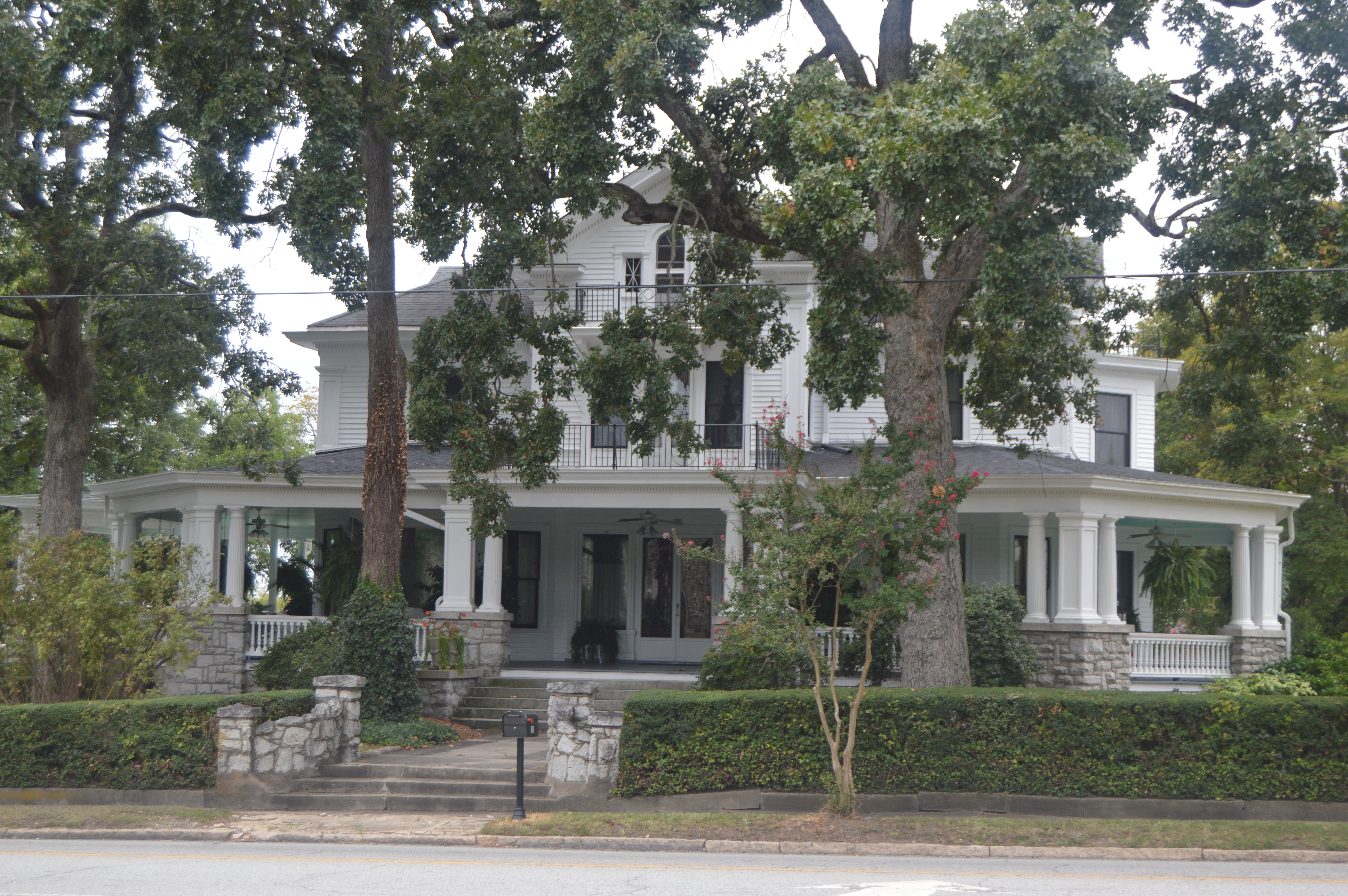 Front of the house located on the southwestern corner of the intersection of Randolph Street and Colonial Drive in Thomasville, North Carolina, United States. It is part of the Randolph Street Historic District, a historic district that is listed on the National Register of Historic Places.